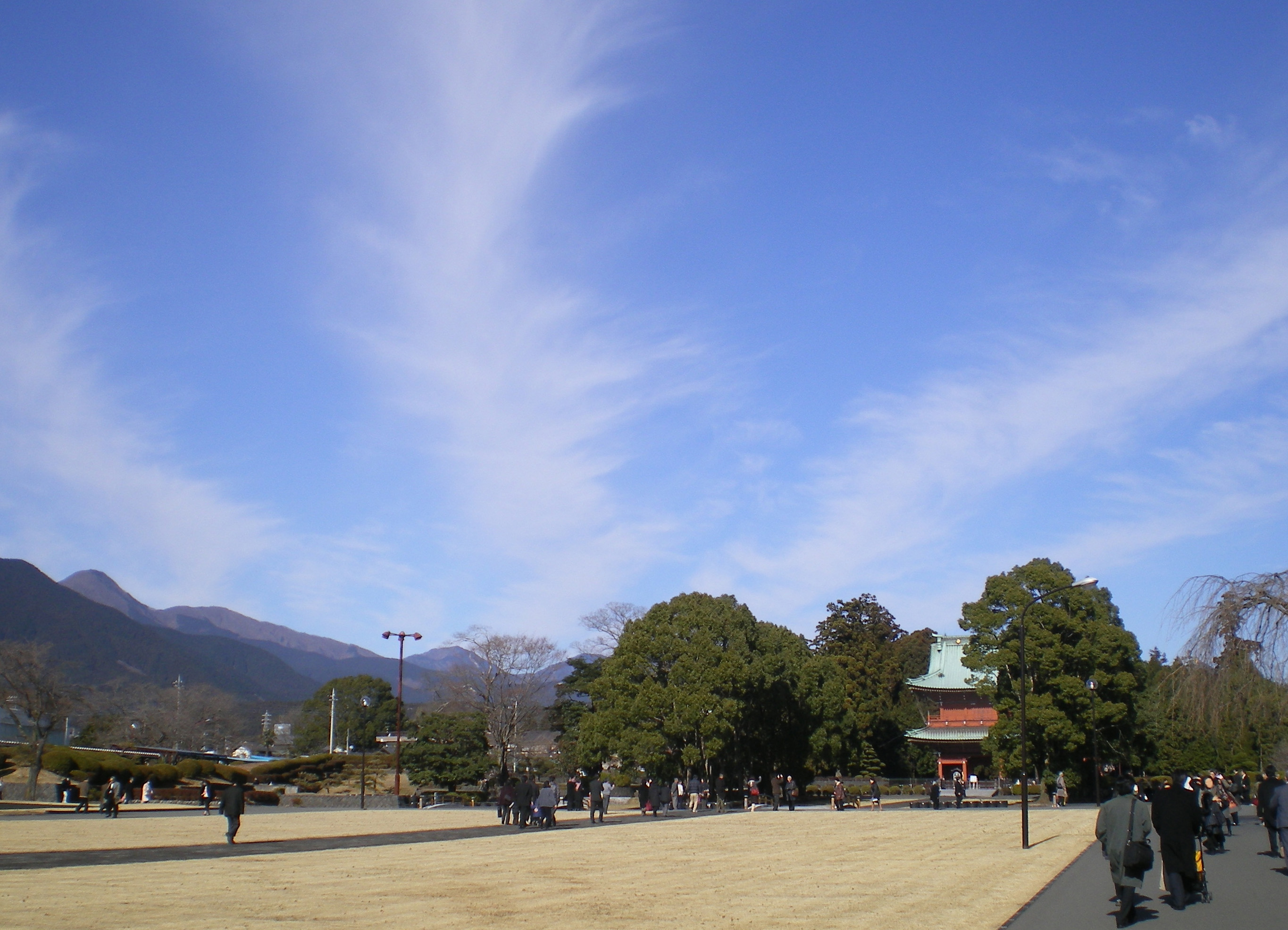 Precinct of Taiseki-ji.